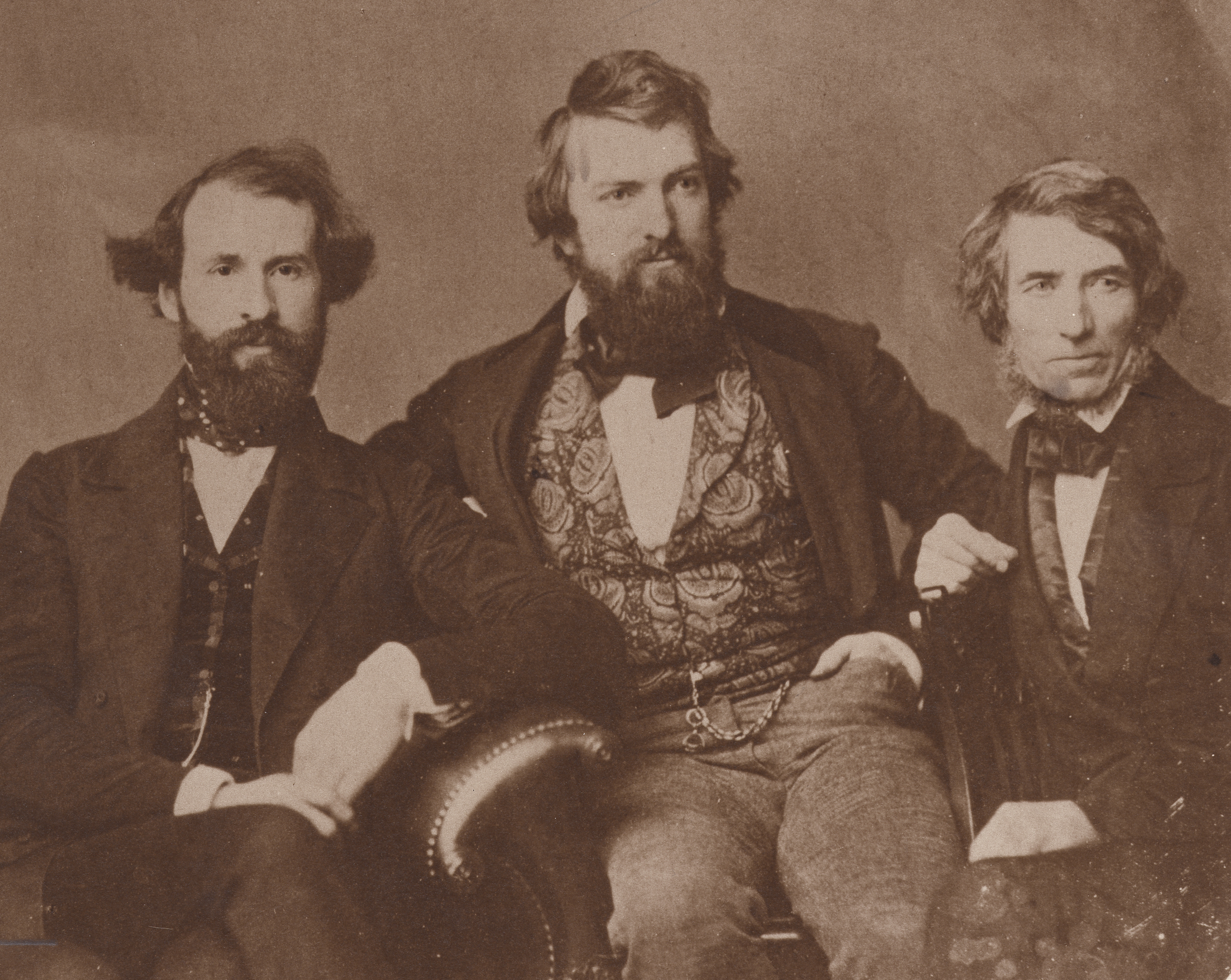 Pictured L to R.: Henry Kirke Brown, Henry Peters Gray and Asher Brown Durand, photographer unknown. Artists were members of the National Academy of Design.